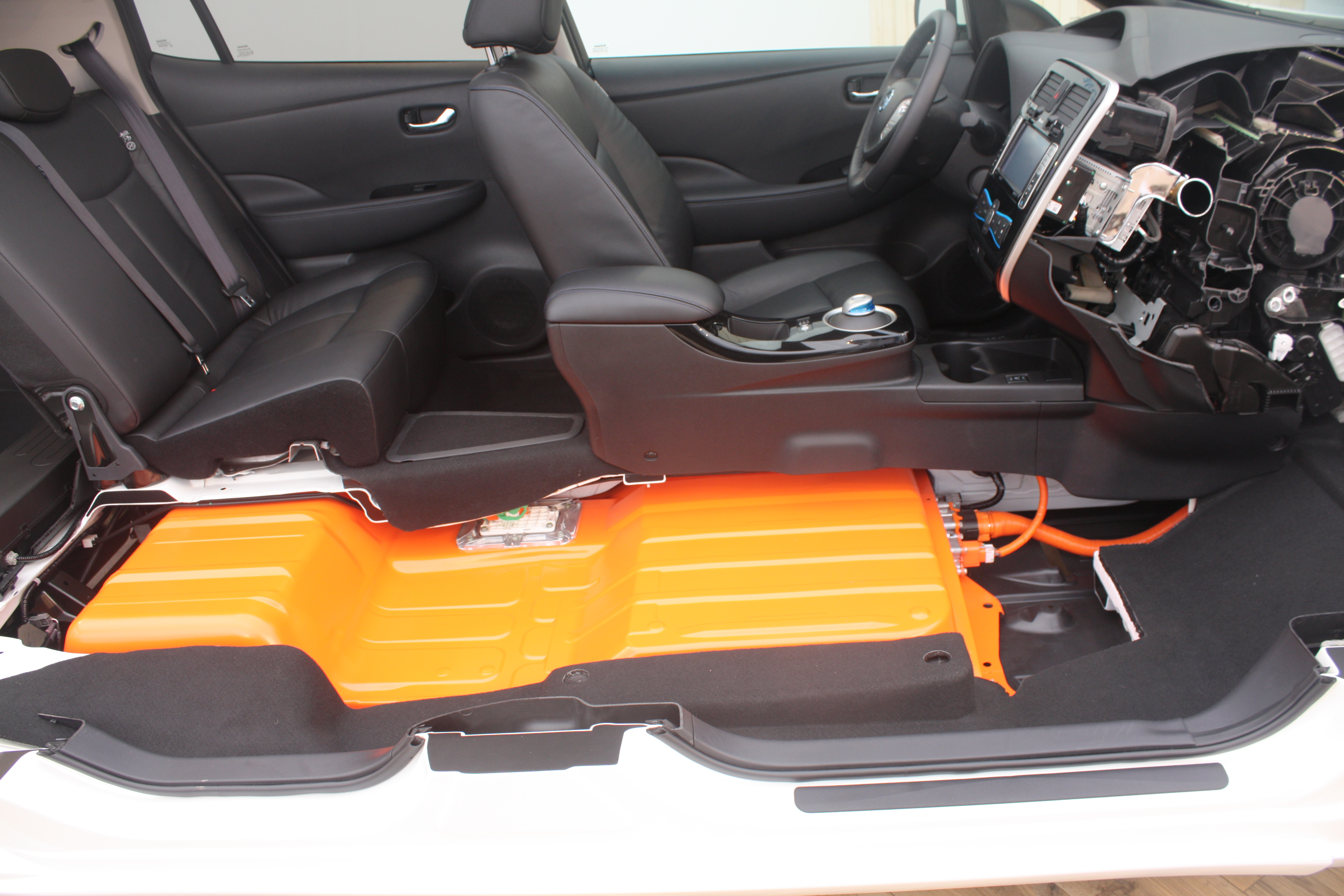 Location of the battery pack shown in a cutaway of the 2013 Nissan Leaf exhibited in Norway during the launch of the new year model